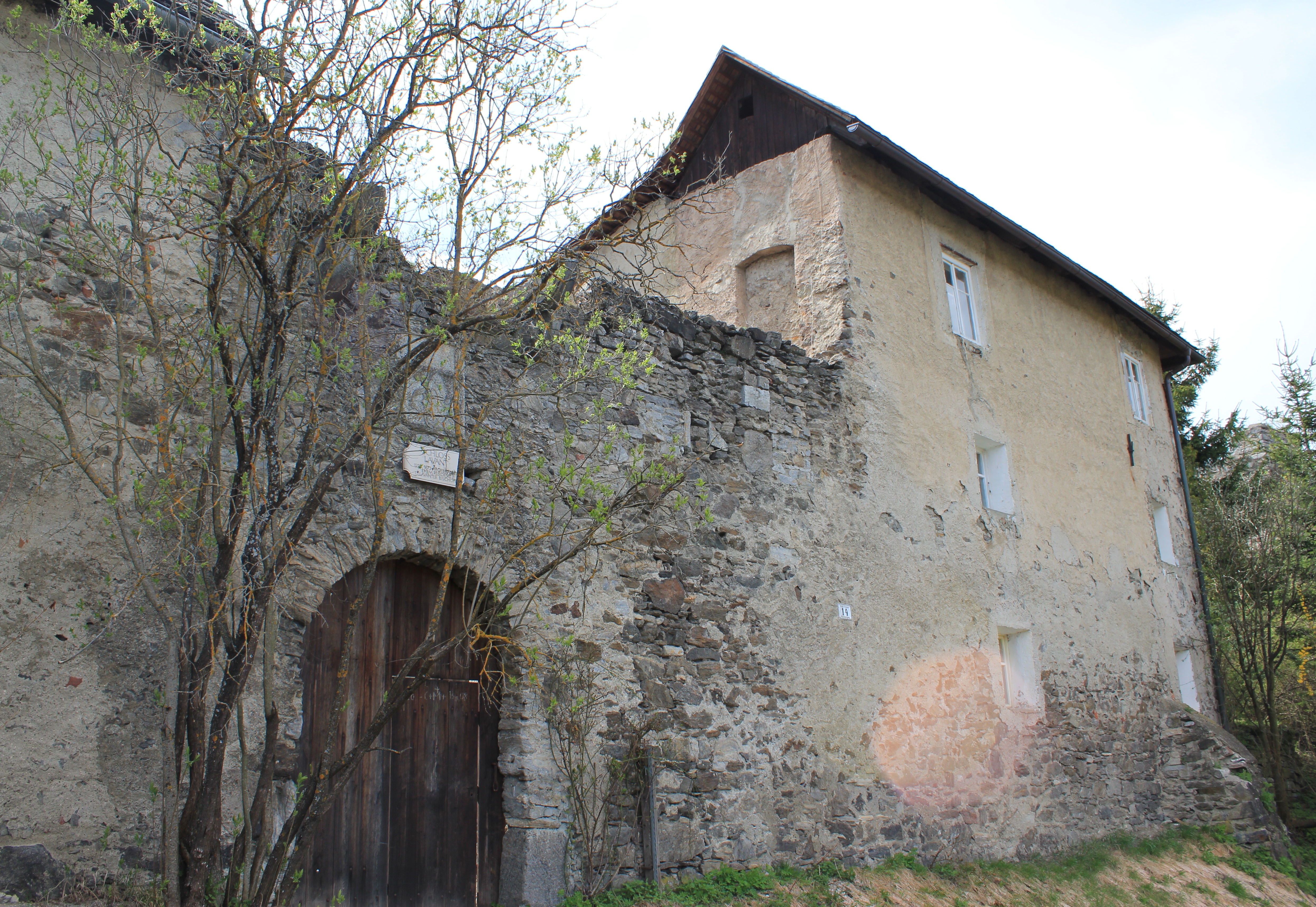 Lavant castle in Friesach